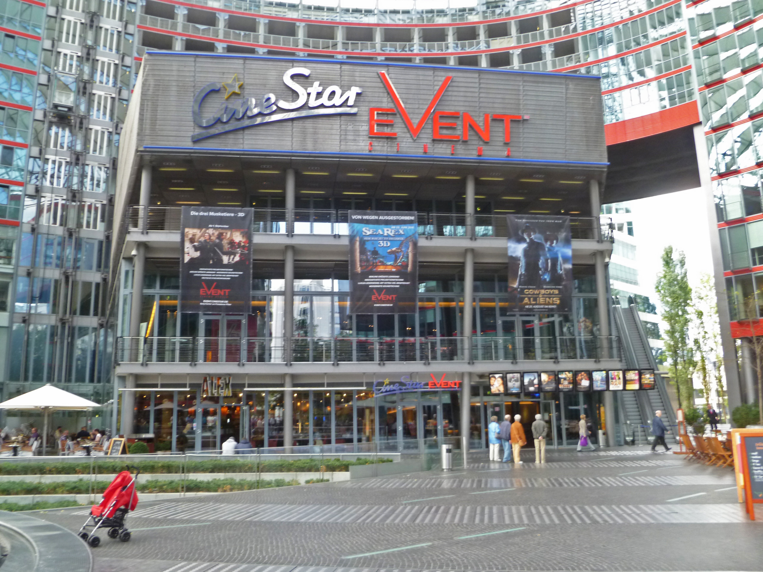 Cine Star, Sony Center, Berlin, Germany